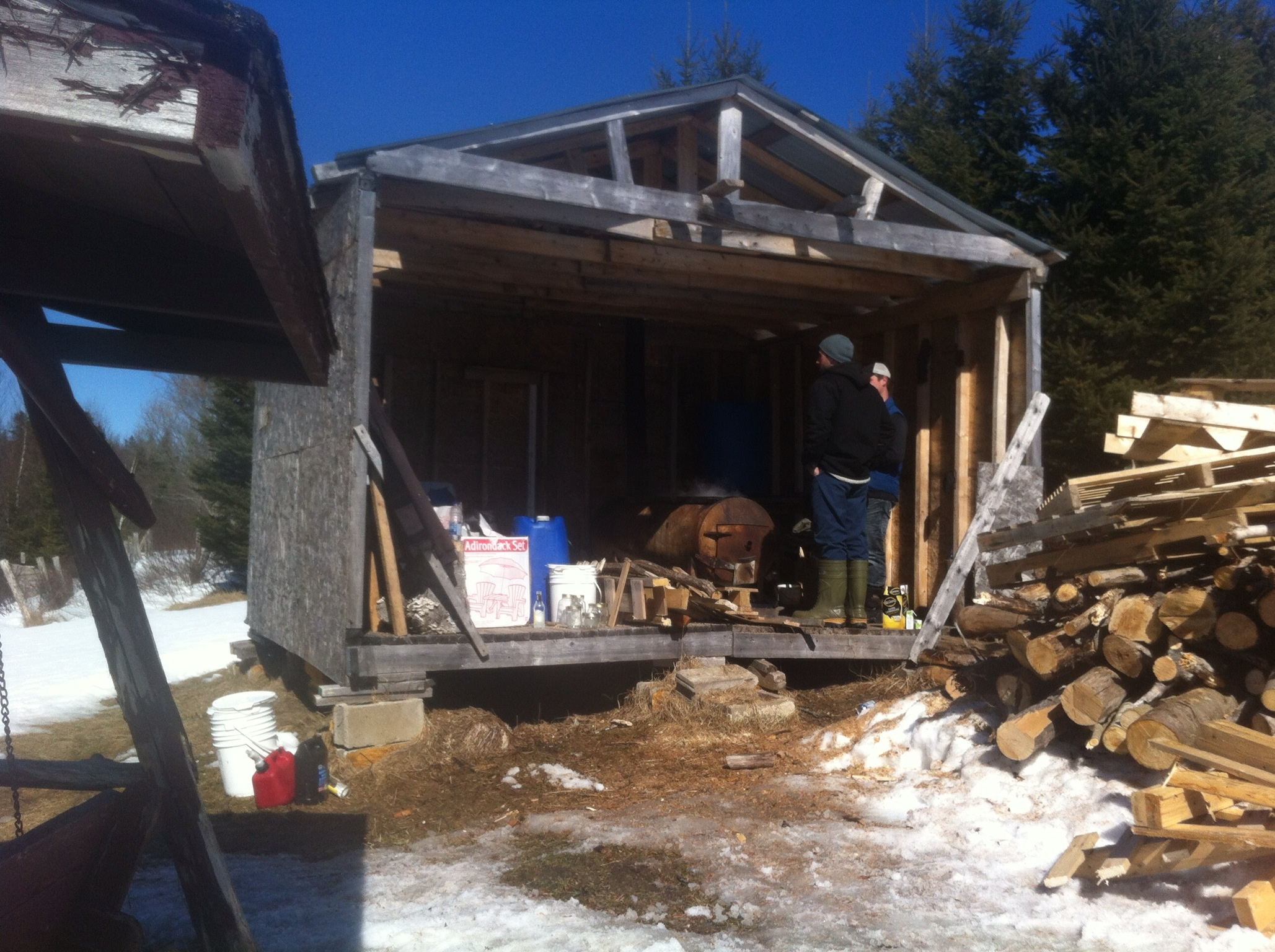 Boiling the maple sugar